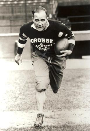 Lionel Conacher as a football player for the Toronto Crosse and Blackwell Chefs in 1933. (Note that the year given by the Canadian Football Hall of Fame is incorrect. The team was known as Crosse and Blackwell in 1933, and the Wrigley Aeromints in 1934.)